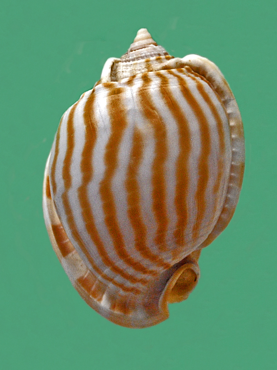 Shell of Phalium flammiferum on display at the Museo Civico di Storia Naturale di Milano